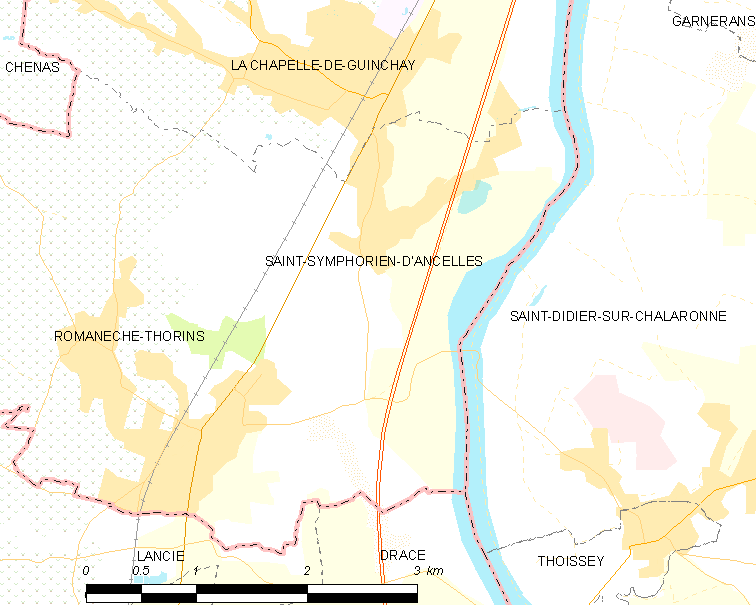 Map of French municipality